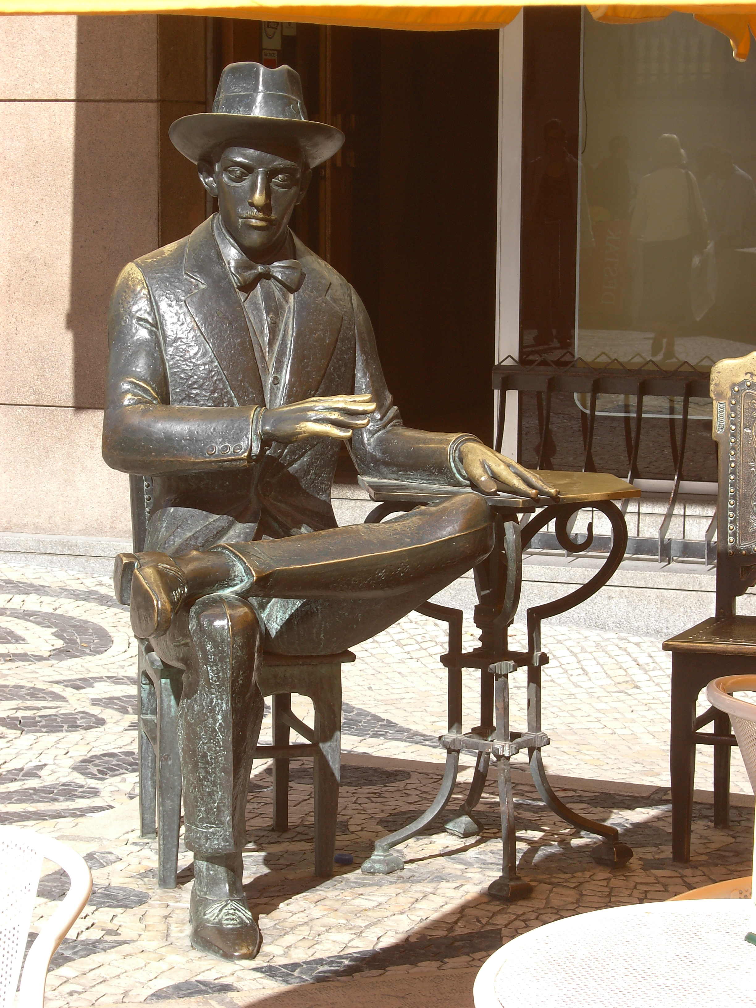 Monument to Fernando Pessoa in front of cafe "A Brasileira", in Lisboa. Original Photograph taken by Nol Aders on 18th October 2005, 12:45